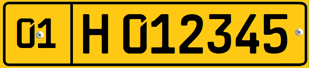 Foreign vehicules license plate, Uzbekistan